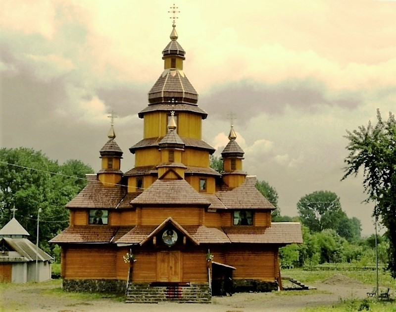 Church of the martyrs of Boris and Hlib. Zhydachiv. Lviv region. Zhydachiv is a city in Lviv Oblast (province) in western Ukraine.